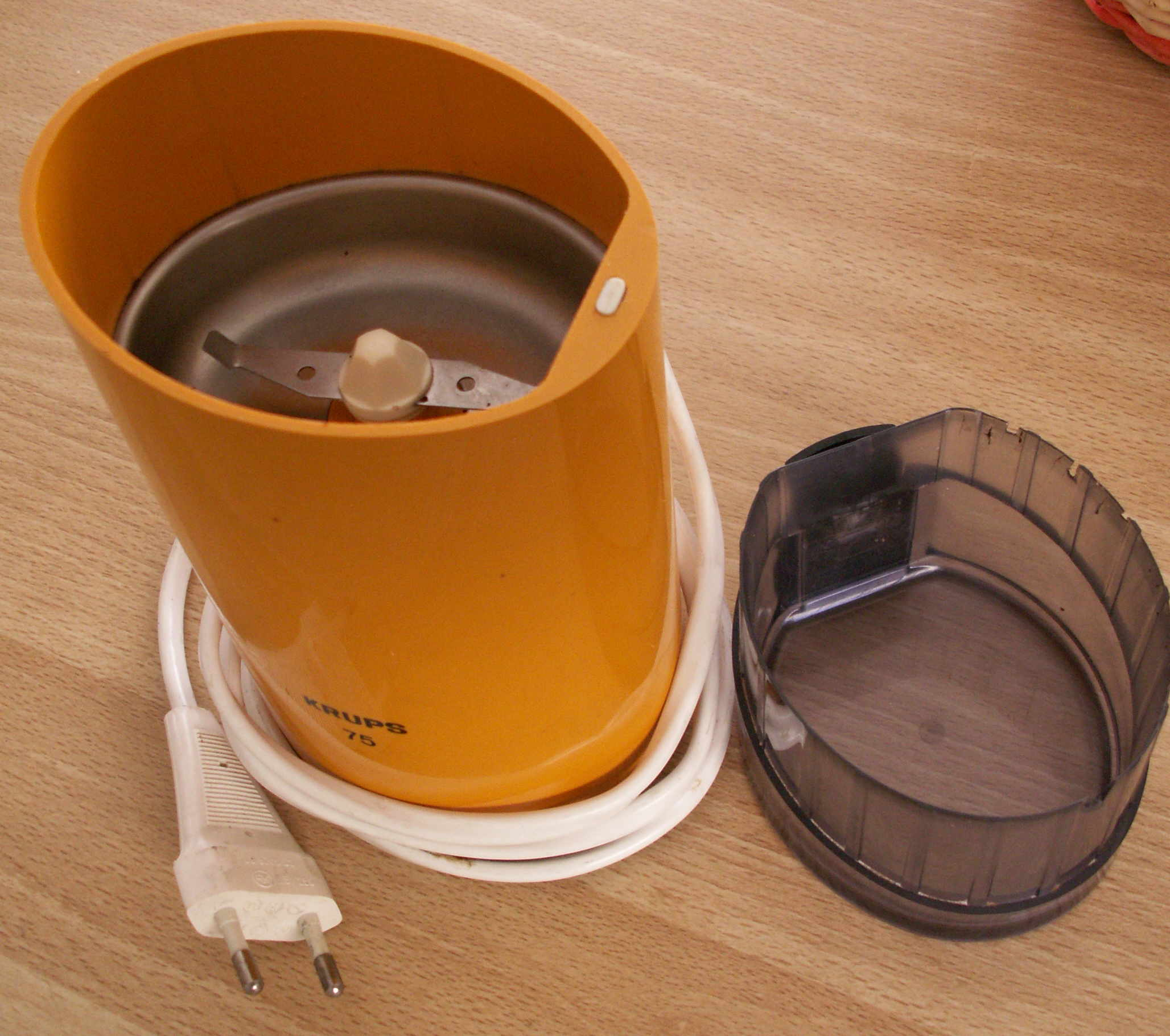 An electrical coffee grinder, from Krups (designed specifically for coffee beans, aldough the owner uses it for chopping twigs/teatwigs and tealeaves for making teas/infusions